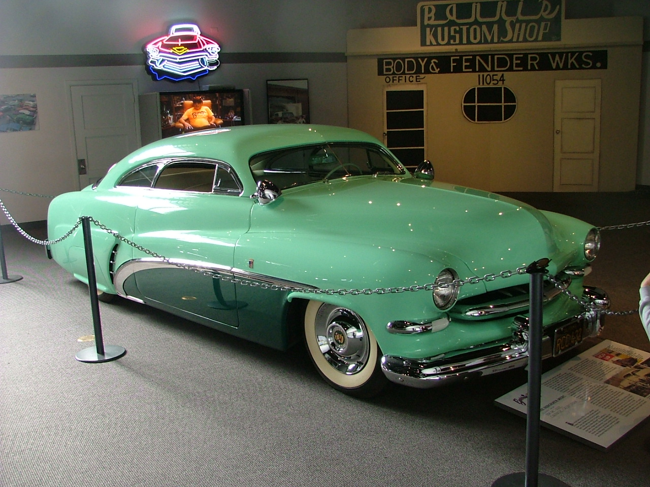 Bob Hirohata's '51 Merc built at Barris Kustoms